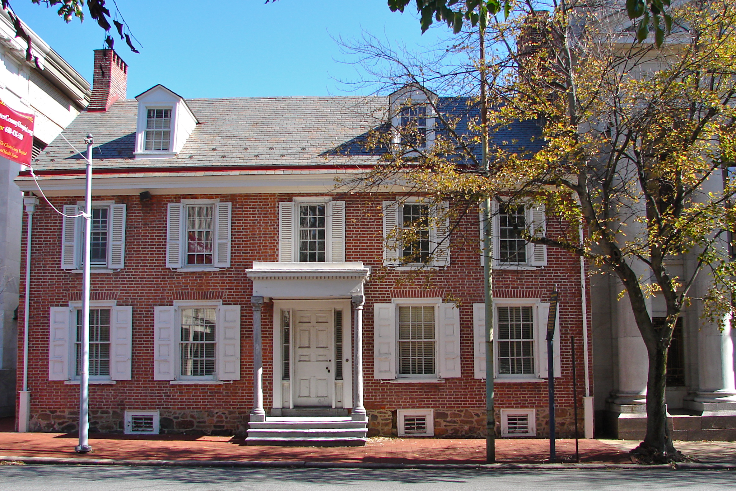 Building associated with William Darlington in the West Chester Downtown Historic District, across from the county courthouse. PHMC marker in front of the building.